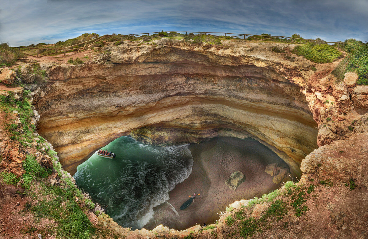 photocredit: Marian Baciu